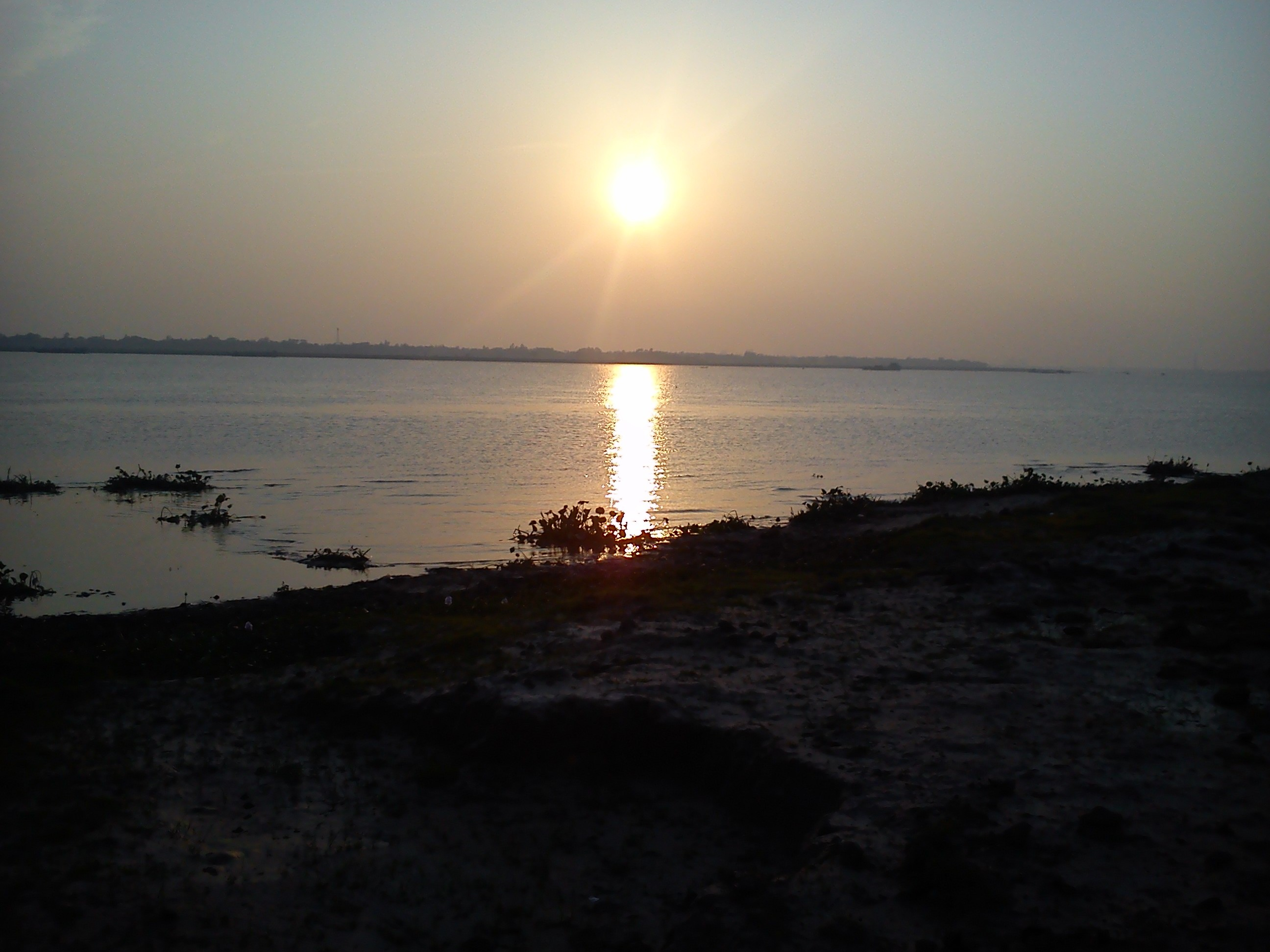 Evening at meghna river